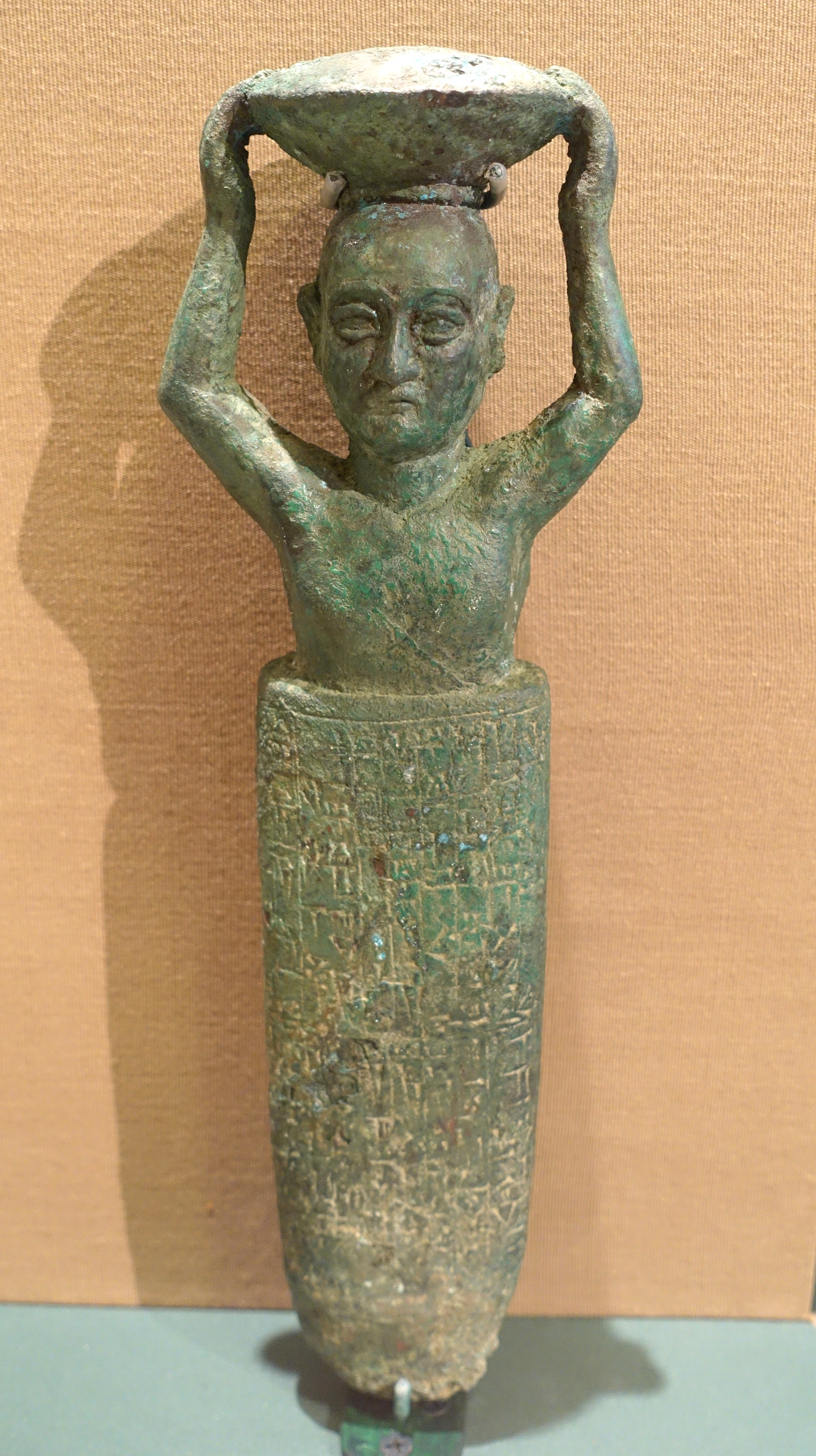 Exhibit in the Oriental Institute Museum, University of Chicago, Chicago, Illinois, USA. This work is old enough so that it is in the public domain.